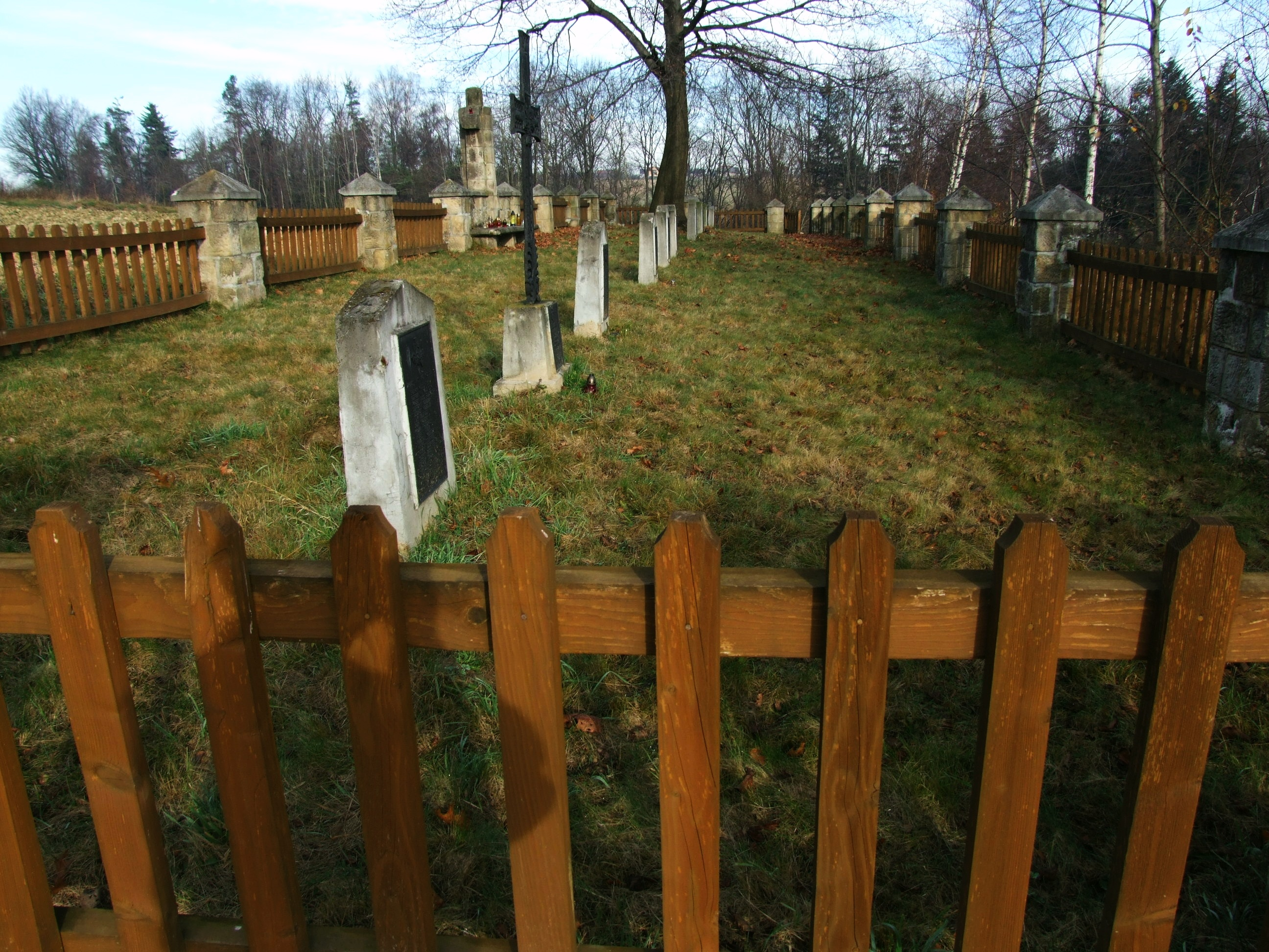 World War I Cemetery nr 305 in Łąkta Dolna